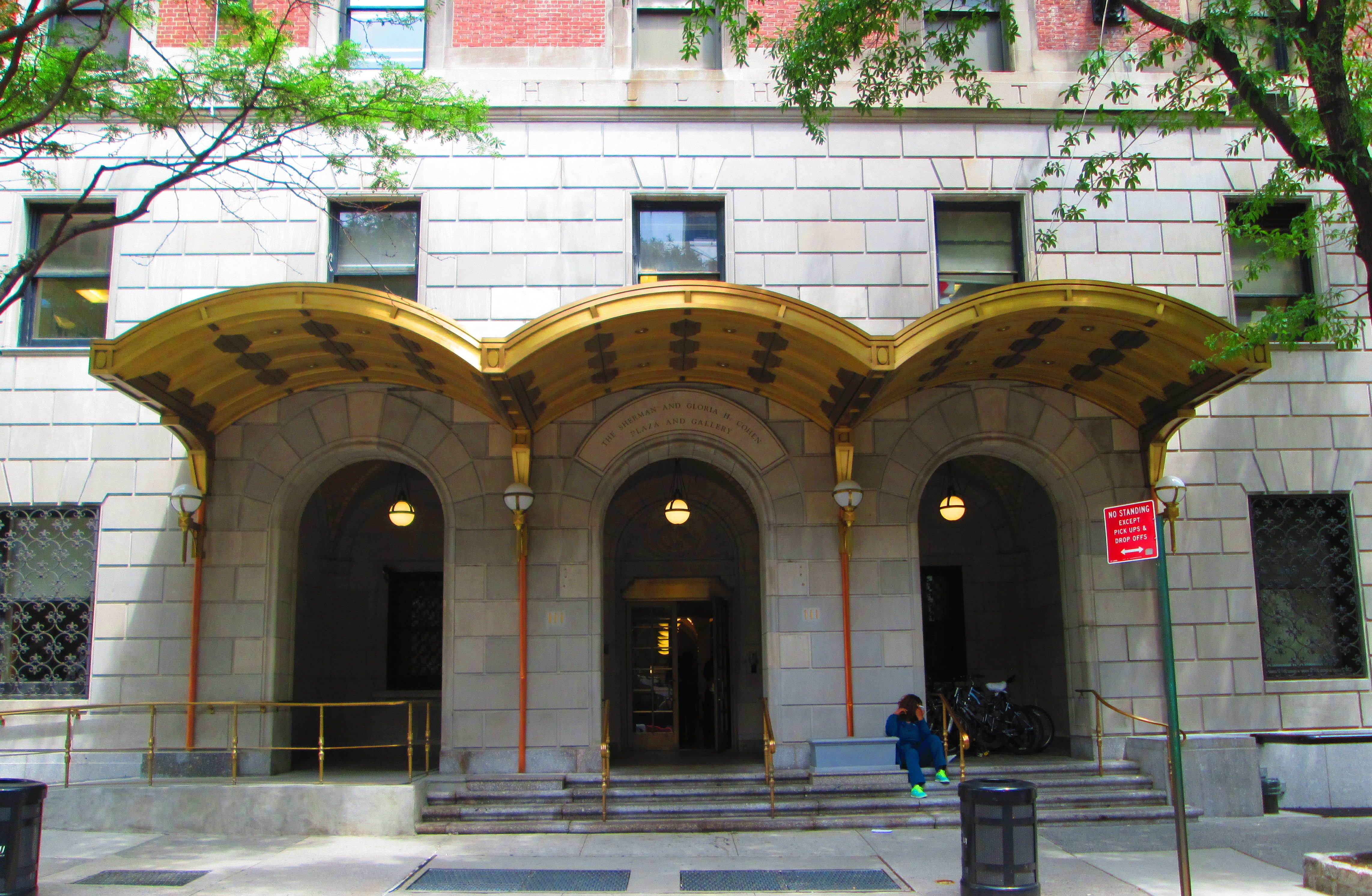 The entrance to Lenox Hill Hospital's Sherman and Gloria H. Cohen Plaza and Gallery at 125 East 76th Street between Lexington and Park Avenues in the Lenox Hill neighborhood of the Upper East Side, Manhattan, New York City.